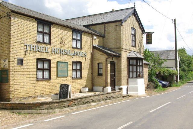 Three Horseshoes, Graveley, near to Graveley, Cambridgeshire, Great Britain. Village pub on High Street. Graveley Airfield was a base for bomber squadrons in the Second World War; some memorabilia associated with the airfield is displayed in the pub.